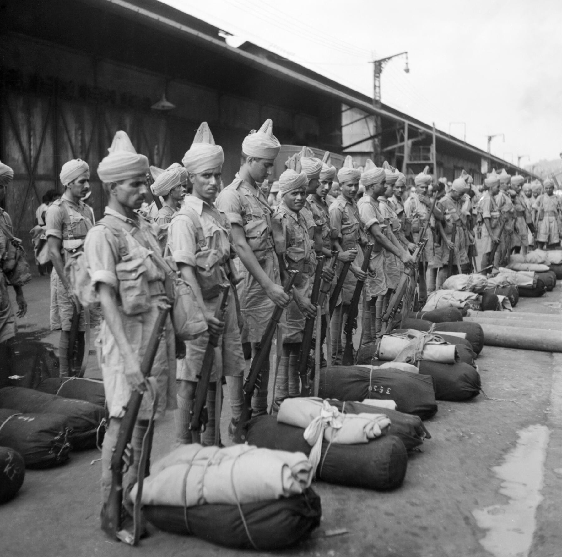 Newly-arrived Indian troops parade on the quayside at Singapore.